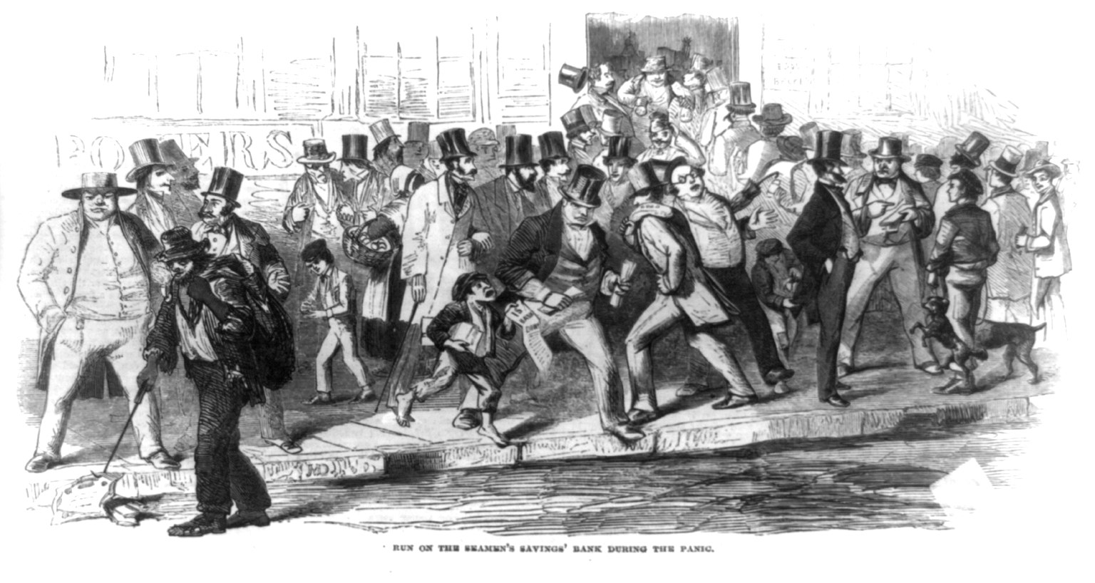 Run on the Seamen's Savings' Bank during the Panic of 1857.On October 13, 1857, after the Ohio Life & Trust Co. declared bankruptcy, panic struck the New York Stock Exchange and hundreds of other banks and individual investors were ruined. This wood engraving, , shows a crowd gesturing and shoving. A ragpicker picks up now-worthless stock certificates, and a pickpocket operates unnoticed. Wood engraving, 4.75 × 9.5 in.